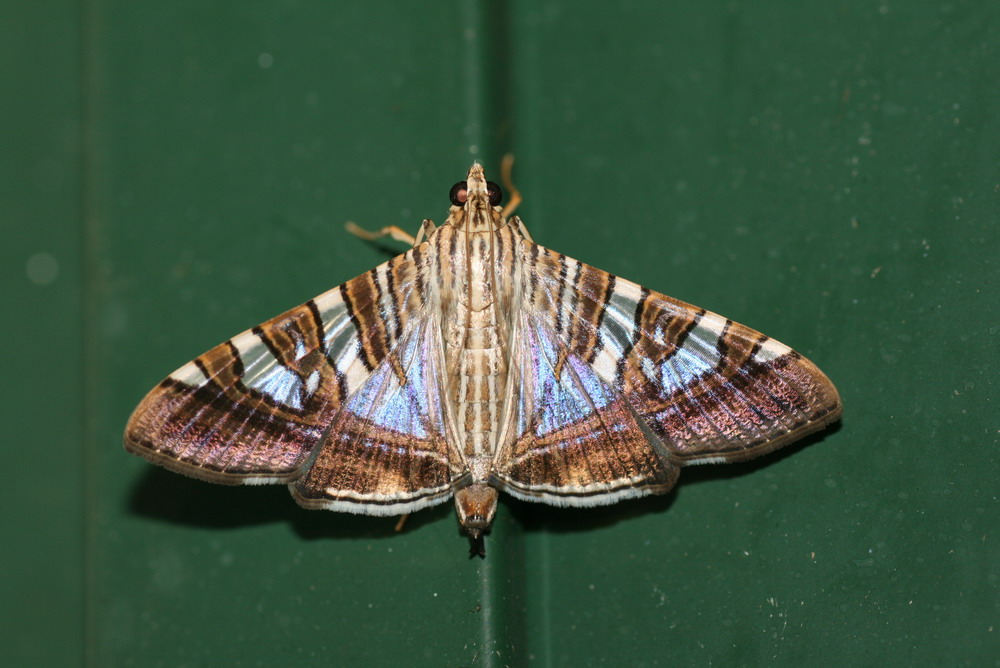 Malaysia, Fraser Hill March, 2009